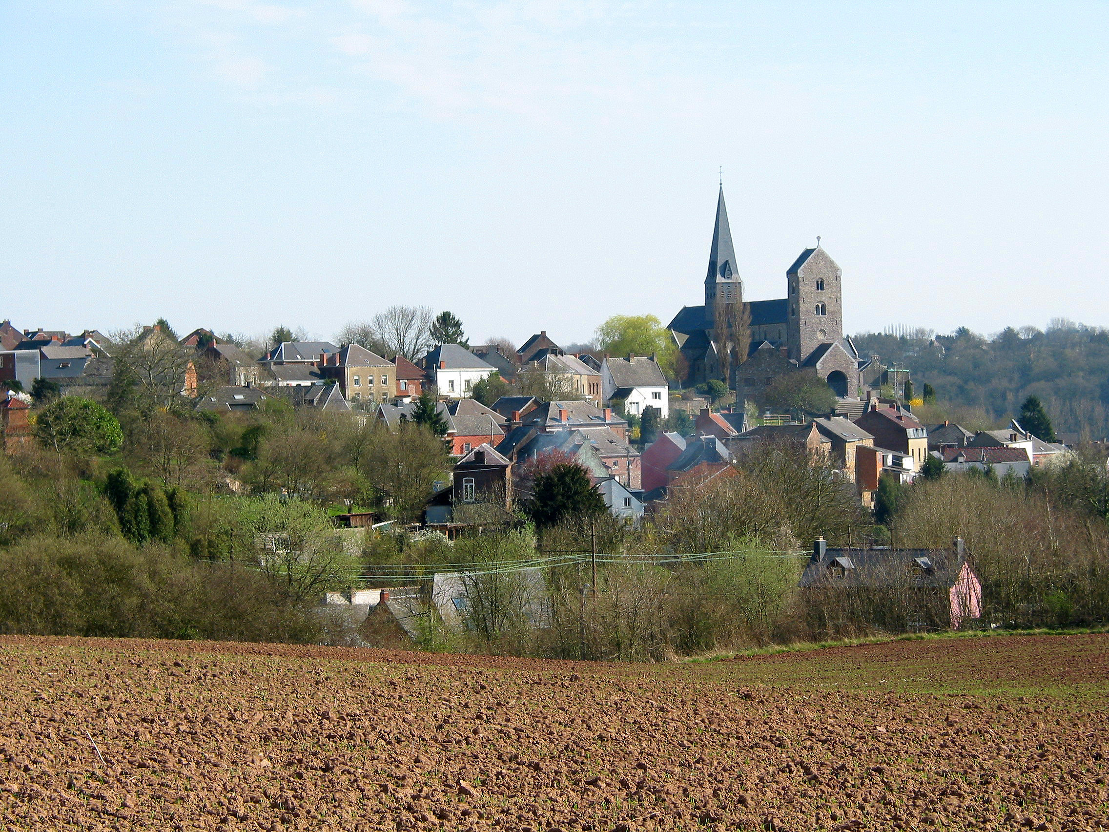 Lobbes (Belgium), the higher part of the town and the Saint Ursmer Collegiate church (IXth century) viewed from the Binche street.